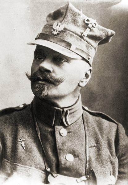 Daniel Konarzewski (1871-1935) - General of Polish Army